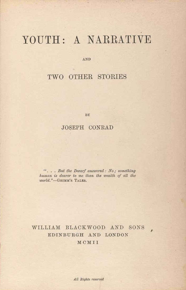 Title page: Youth, a Narrative, and Two Other Stories by Joseph Conrad (1857-1924). William Blackwood and Sons, Edinburgh and London, 1902. *EC9 C7638 902y (A), Houghton Library, Harvard University